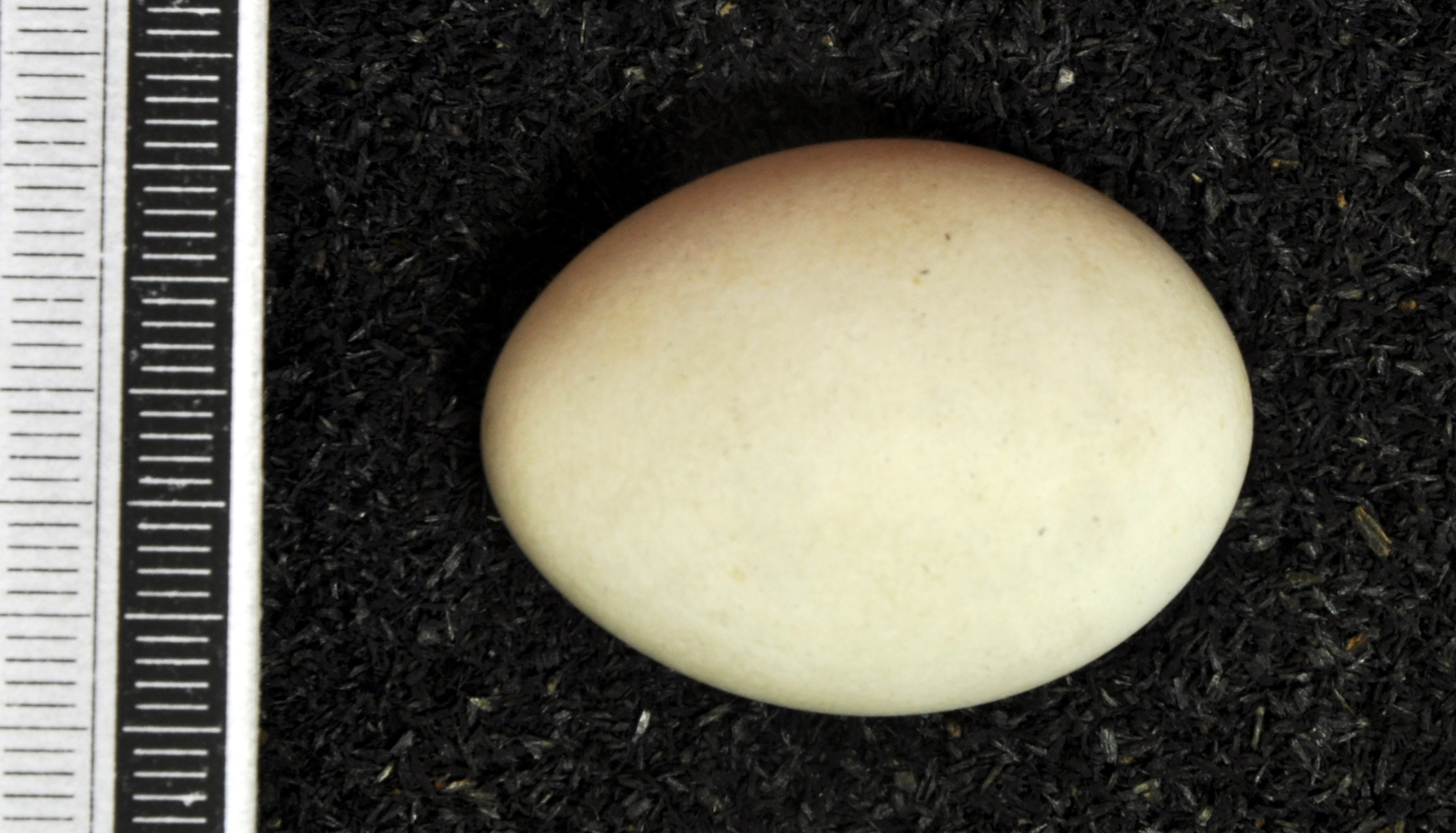 Little bittern Ixobrychus minutus , egg, Coll. Museum Wiesbaden